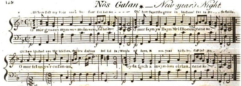 First known publication of "Nos Galan", from "Musical and poetical relicks of the Welsh bards", Edward Jones, London, 1794